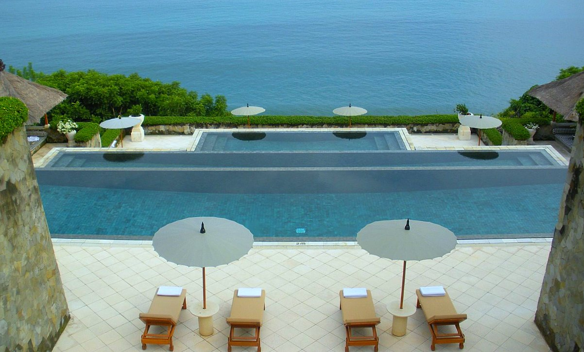 Amankila Hotel, Nyuh Tebel, Bali.